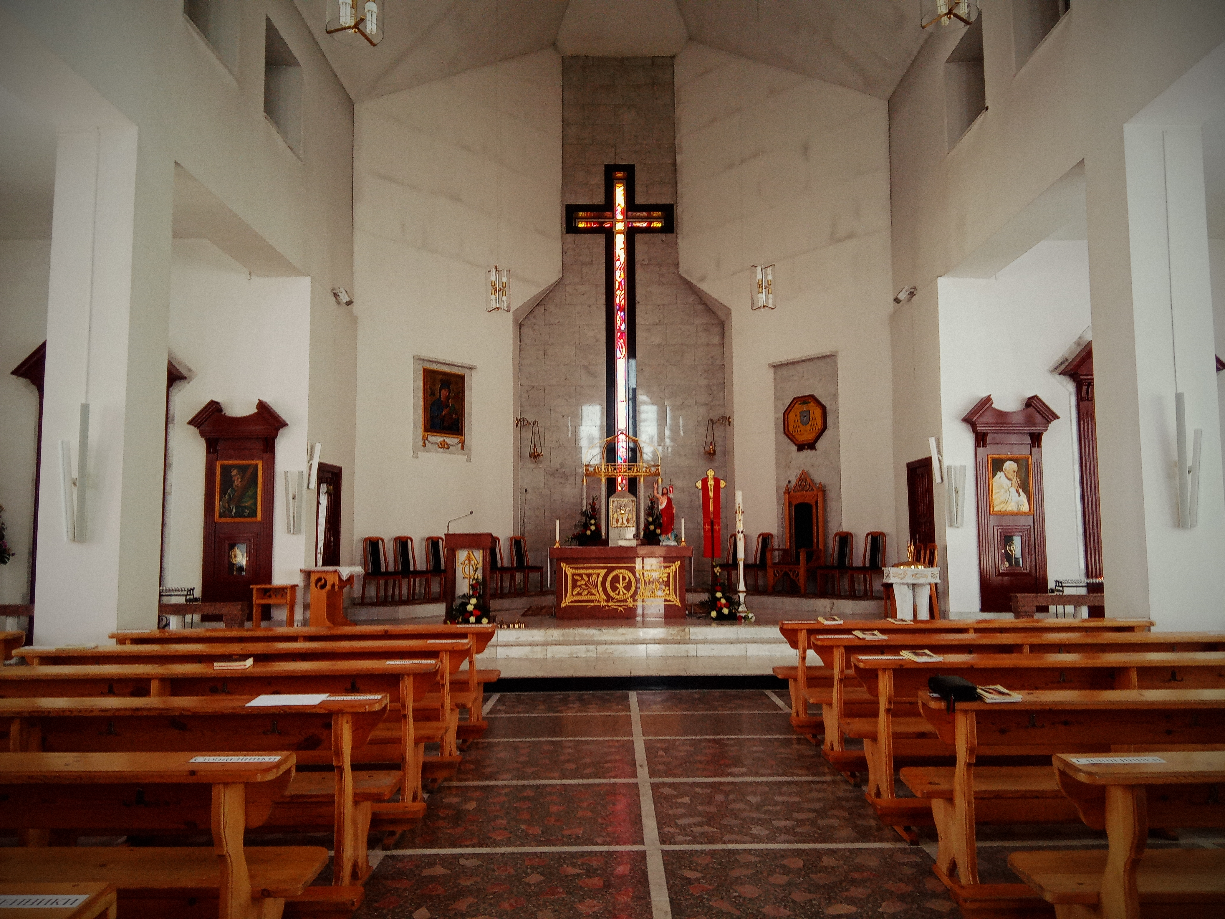 Astana Katedra 2